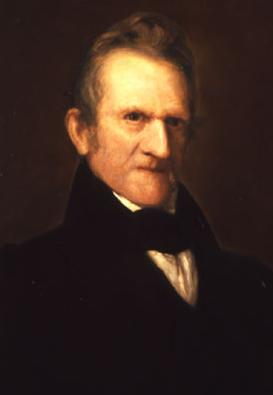 Ambrose Spencer. From: Find A Grave